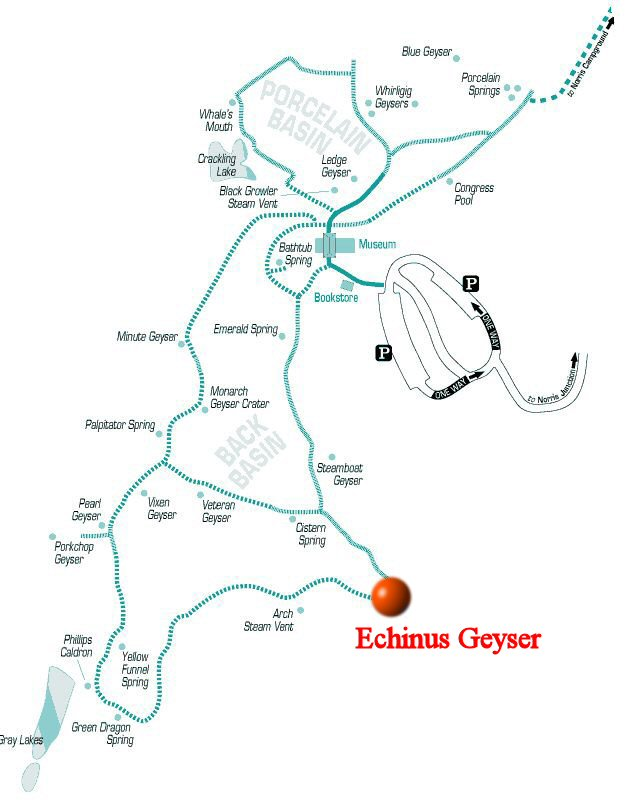 Map of Norris Geyser Basin, Yellowstone National Park, Wyoming with Echinus Geyser annotated